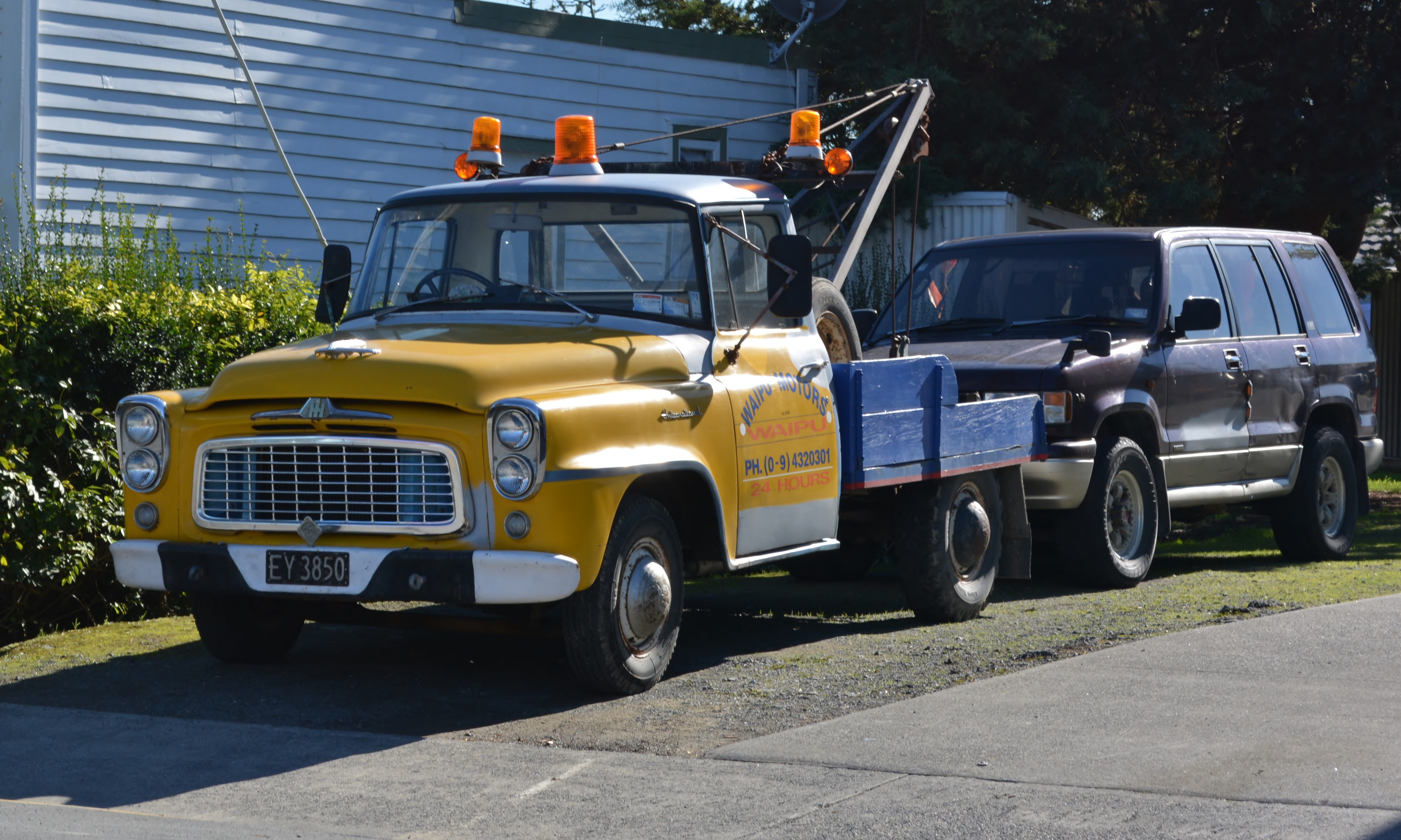 International AA120 with the 240ci ABD ("Australian Blue Diamond") inline-six (3933cc) in Waipu, Northland, New Zealand. Chassis AA15342 and engine no 29919.